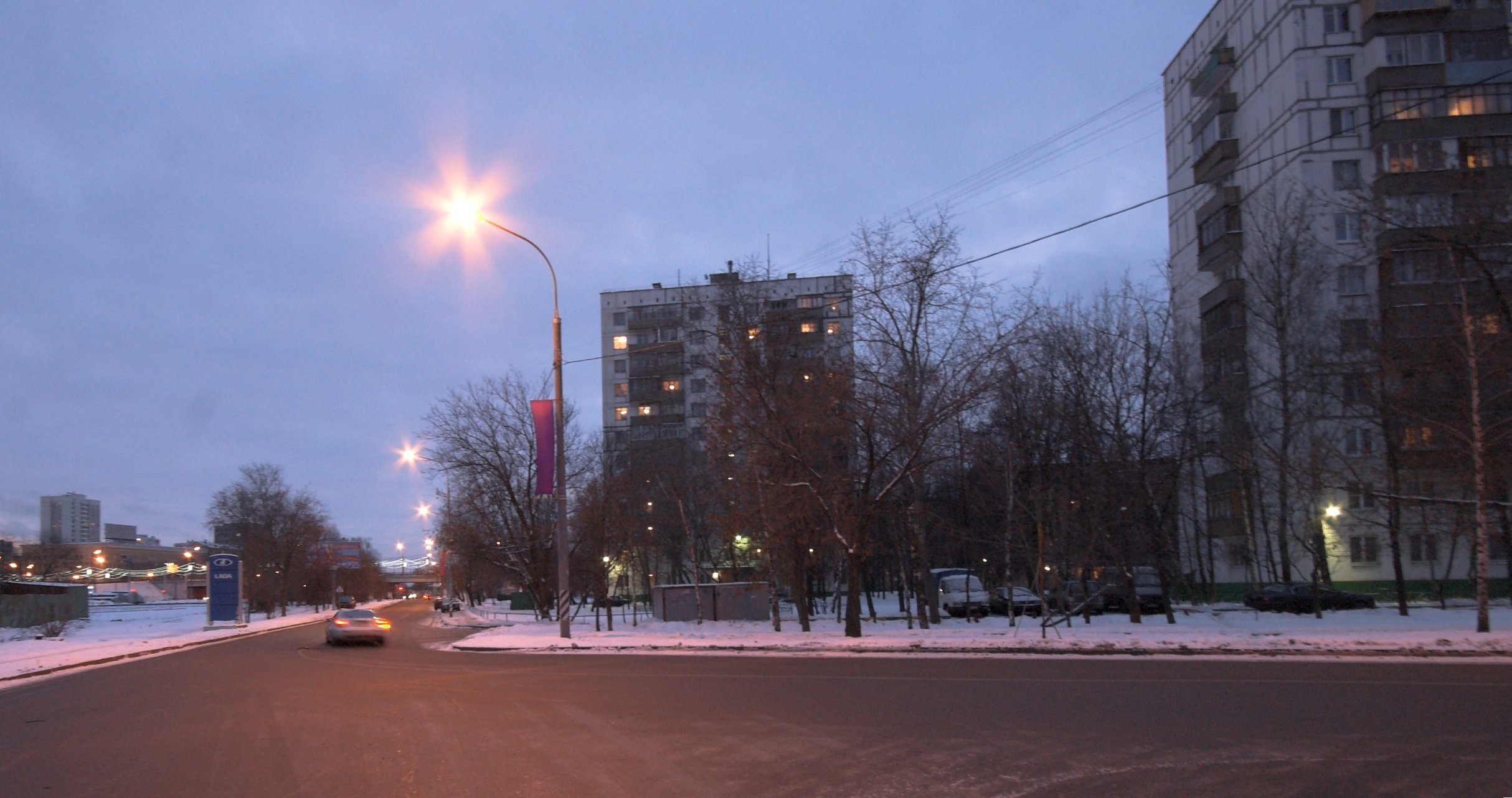 Beginning of Admirala Mackarova street, Moscow.